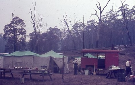 Fire Base camp